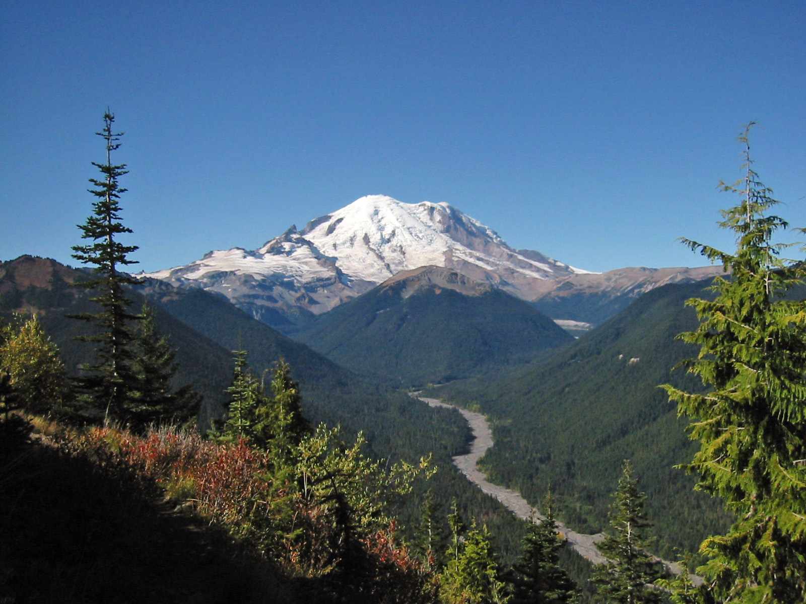 Mount Rainier with its main summit, Columbia Crest (14410 feet) at the center. Liberty Cap (14112 feet) is to the right behind Russell Cliff. Curtis Ridge descends to the right from Russell Cliff. Massive Emmons Glacier covers most of the visible flank of the mountain. Winthrop Glacier flows right along Curtis Ridge and behind shallow Steamboat Prow (9680 feet) with the small Inter Glacier on its northeast face. Ingraham Glacier (left) is between Gibralter Rock (12660 feet) high on the left skyline and Disappointment Cleaver. Left of Gibralter Rock is sharp pointed Little Tahoma (11138 feet) with Frying Pan Glacier on its flank. It is the source of Frying Pan Creek in the valley left of forested and rounded Goat Island Mountain, in front of the Emmons Glacier. It flows into the White River which comes from the Emmons Glacier and flows around the right side of Goat Island Mountain. In the middle distance, the White River Valley is bounded by Governors Ridge (left) and Sunrise Ridge (right). In the foregroun d is a Subalpine Fir (left) and a Yellow Cedar (right).